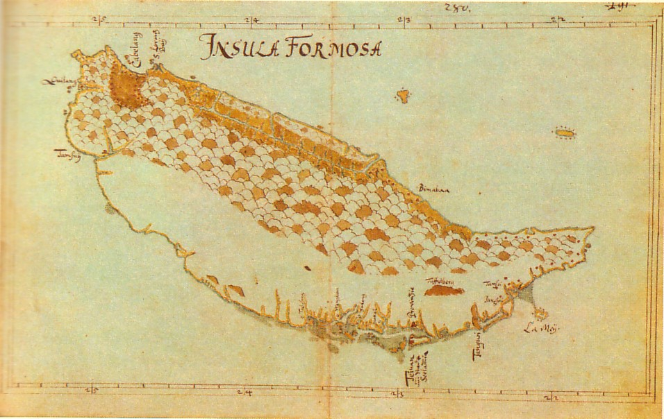 This unofficial map, made by Caspar Schmalkalden, after he left the service of the Dutch East India Company is unusual in the detail it provides for the eastern coast. During the early years of the colony, the eastern coast was largely neglected. In the 1640s, however, the company sent several expeditions to reconnoiter the east coast and investigate rumors of gold mines in the mountains. This map reflects the company's newfound knowledge about the geography of the east coast, including the long valley behind the Coastal Mountain Range (海岸山脈) and the Cavalan area. Used by permission of the Gotha Research Library (Gotha Forschungbibliothek) (finding aid: Chart. B 533, fos. 279v-280).